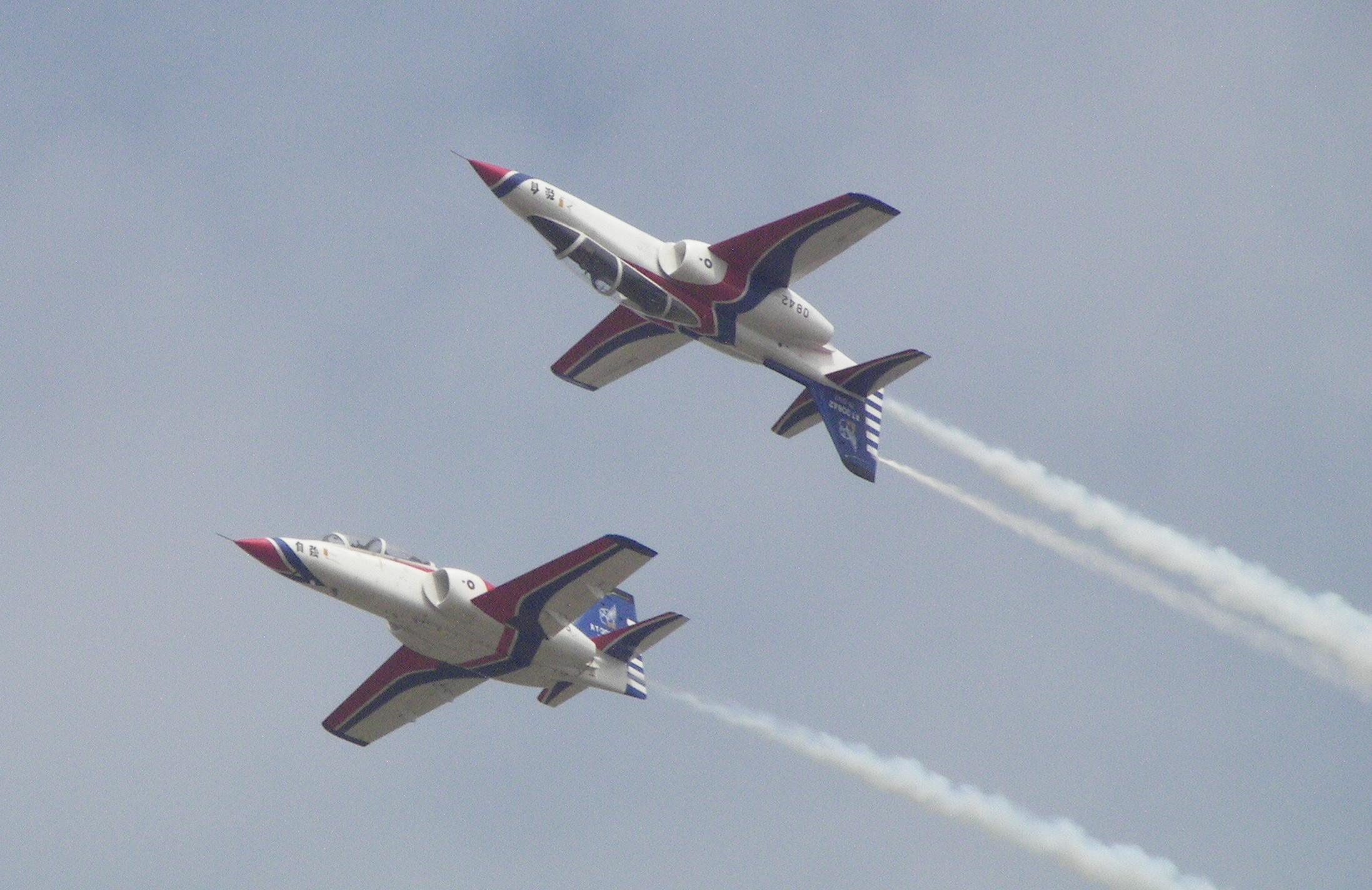 AIDC AT-3s flown by the Thunder Tiger aerobatics team.